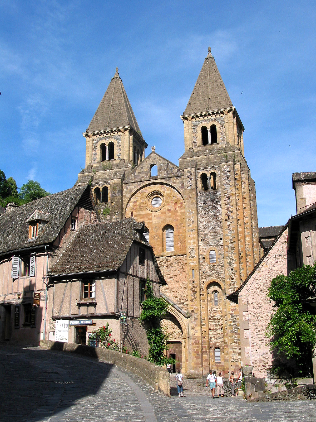 Conques, (Aveyron - France), the neighbourhood of the Ste-Foy abbey church (XIth century).